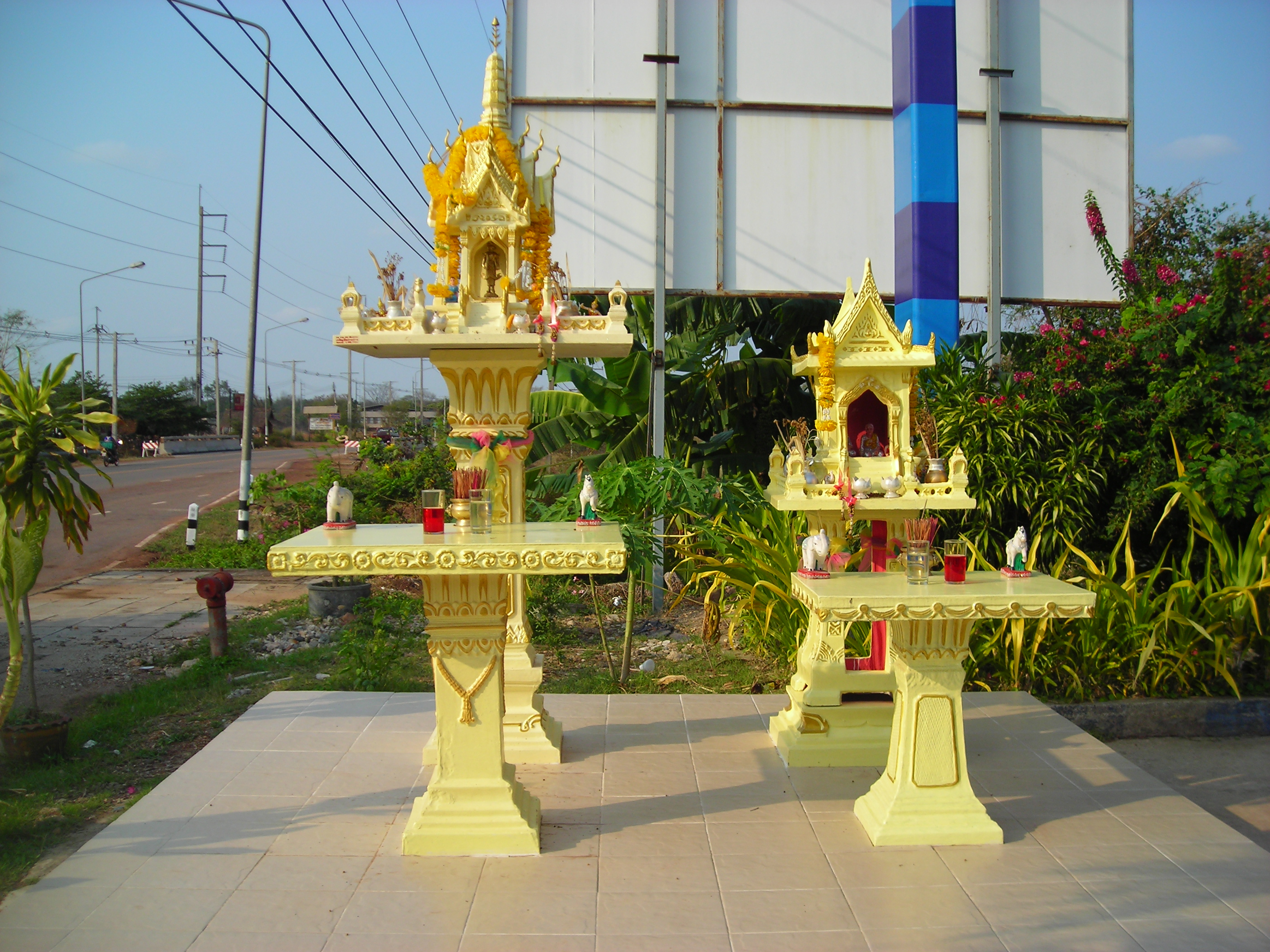 A spirit house (Thai: Pi Ban), seen somewhere in Northeastern Thailand.